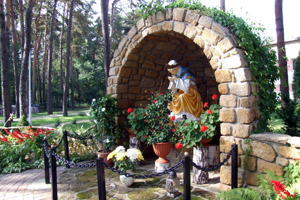 Our Lady of La Salette statue located next to Our Lady of La Salette's Church in Ostrowiec Swietokrzyski, Poland.